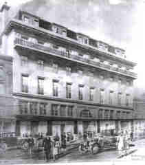 The Plummer Roddis building (now Debenhams) in Hastings, East Sussex, England.